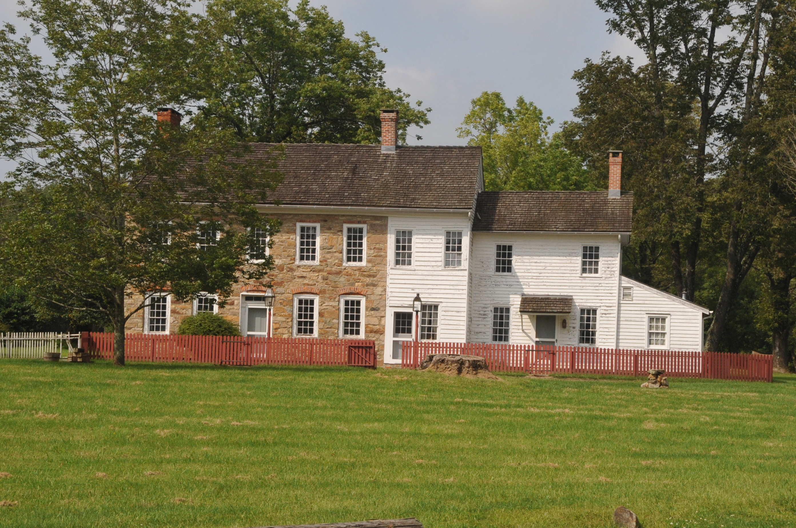 VAN SYCKEL TAVERN BUILT IN 1763; SERVED WORKERS FROM UNION FORGE; DAVID REYNOLDS, OWNER AND BUILDER WAS HANGED BY THE BRITISH IN 1765 FOR COUNTERFEITING